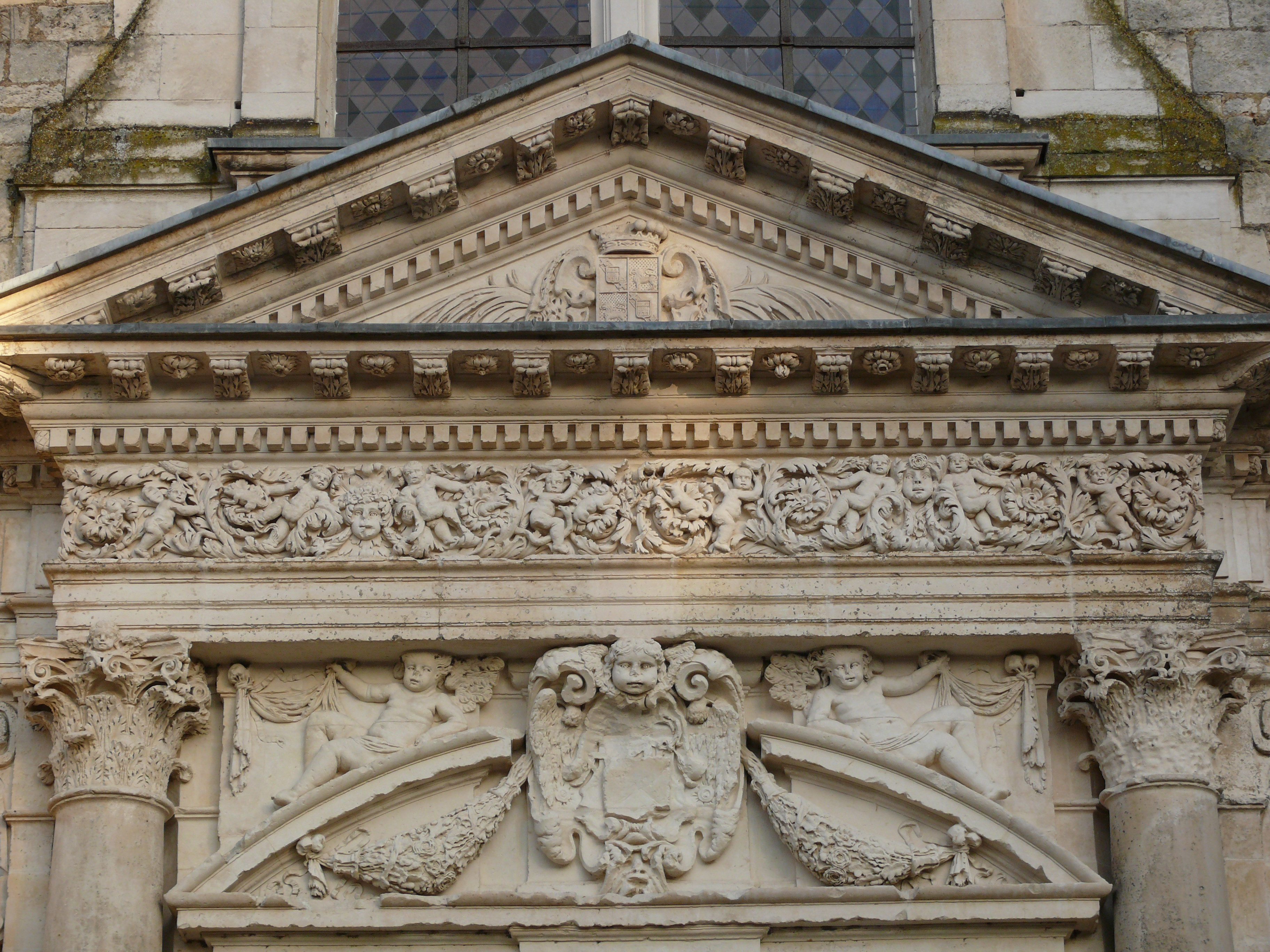 17th century (1644) pediment of Saint-Jean de Montierneuf abbey, Poitiers, France